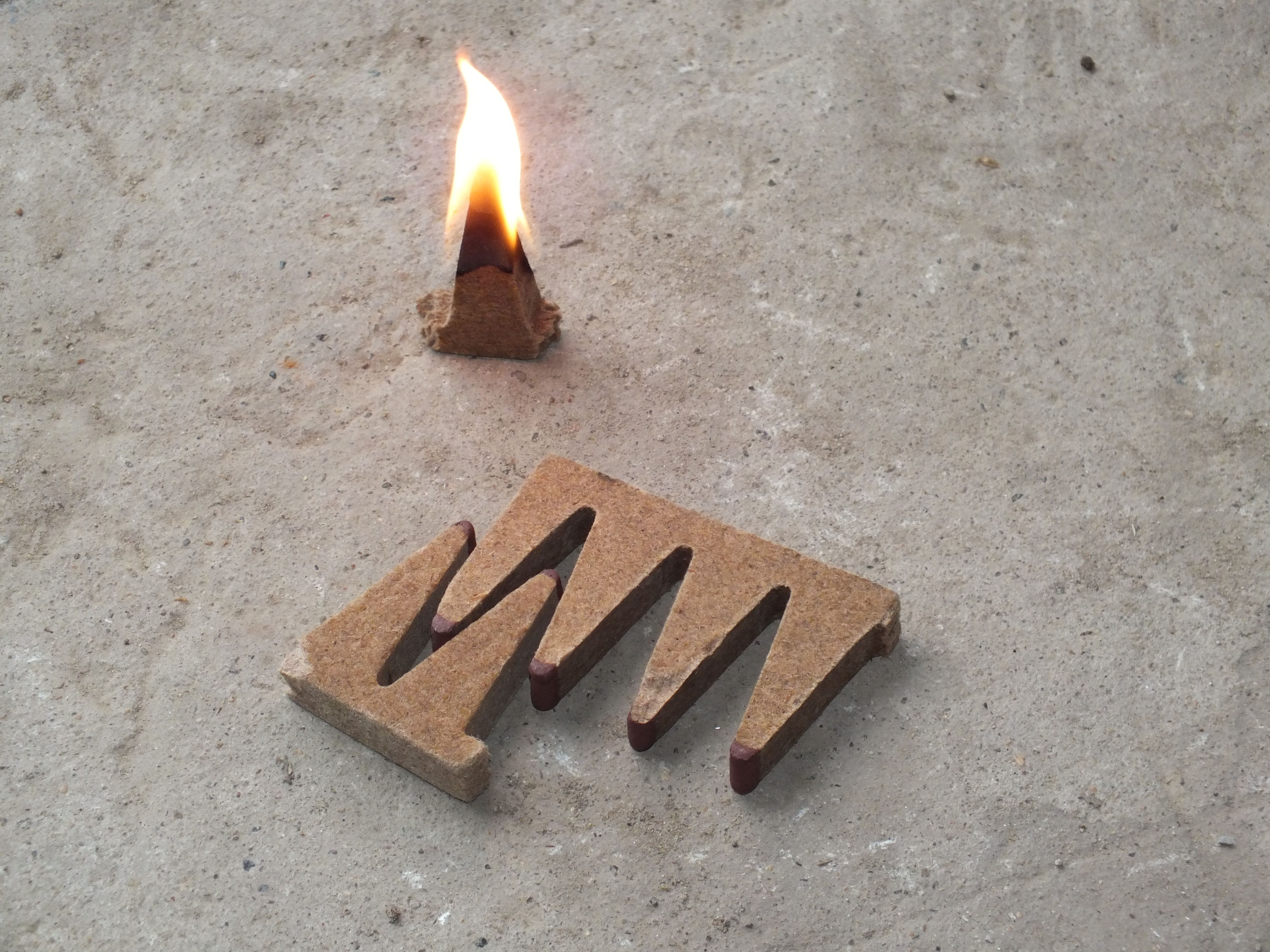 Matches